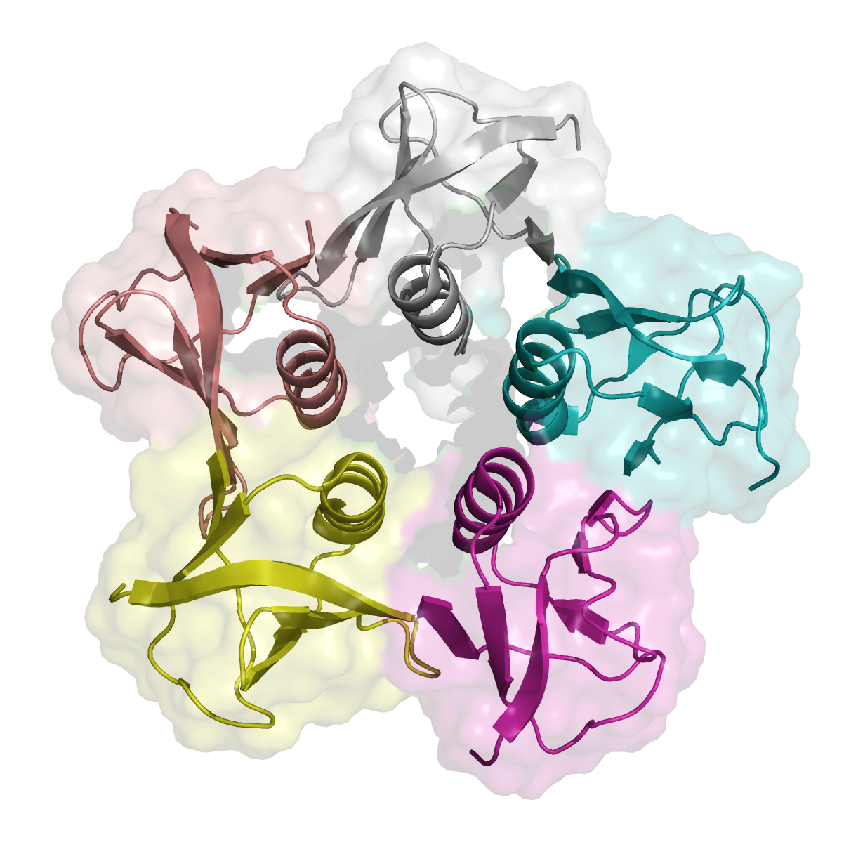 3d ribbon model of shiga toxin B subunit (stxB from Shigella dyasenteriae) pentamer from PDB 1DMO. Ref.: M.E.Fraser et al. (1994). Crystal structure of the holotoxin from Shigella dysenteriae at 2.5 A resolution.. Nat Struct Biol, 1, 59-64. PMID 7656009 [